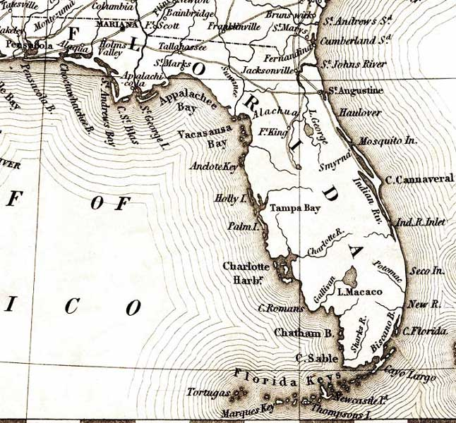 Map of Florida, 1835. Original caption: Map Credit: Courtesy of the Library of Congress, Geography and Map Division. Source: [1], via Exploring Florida: A Social Studies Resource for Students and Teachers, Florida Center for Instructional Technology, College of Education, University of South Florida[2].